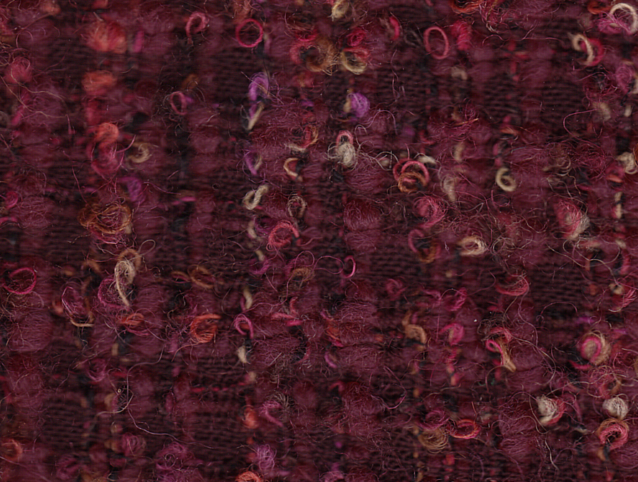 Bouclé fabric, 70% wool, 25% acrylic, 5% nylon. 1st decade 21st century.